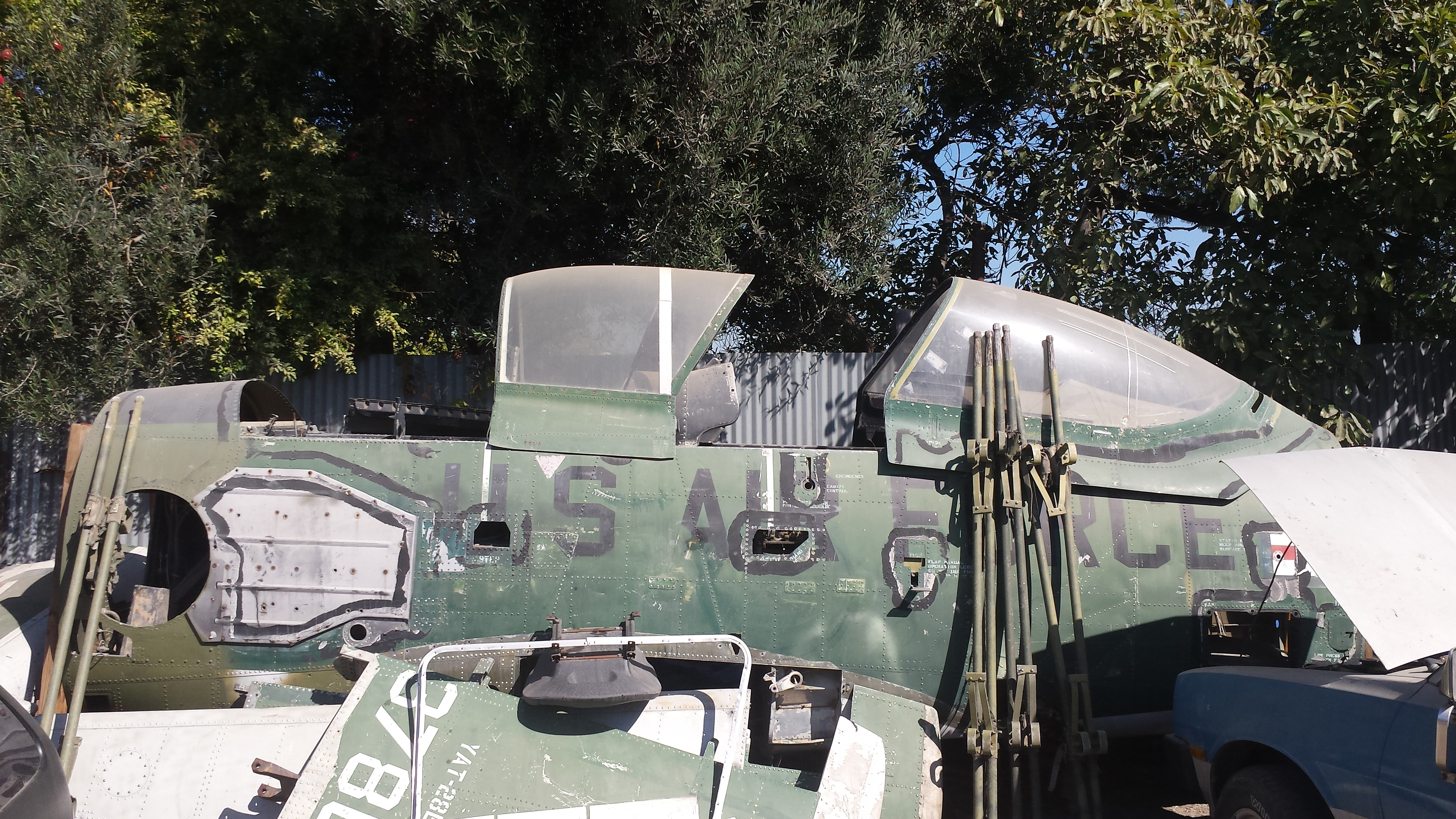 SN 013786 2nd prototype built, currently stored, awaiting restoration.